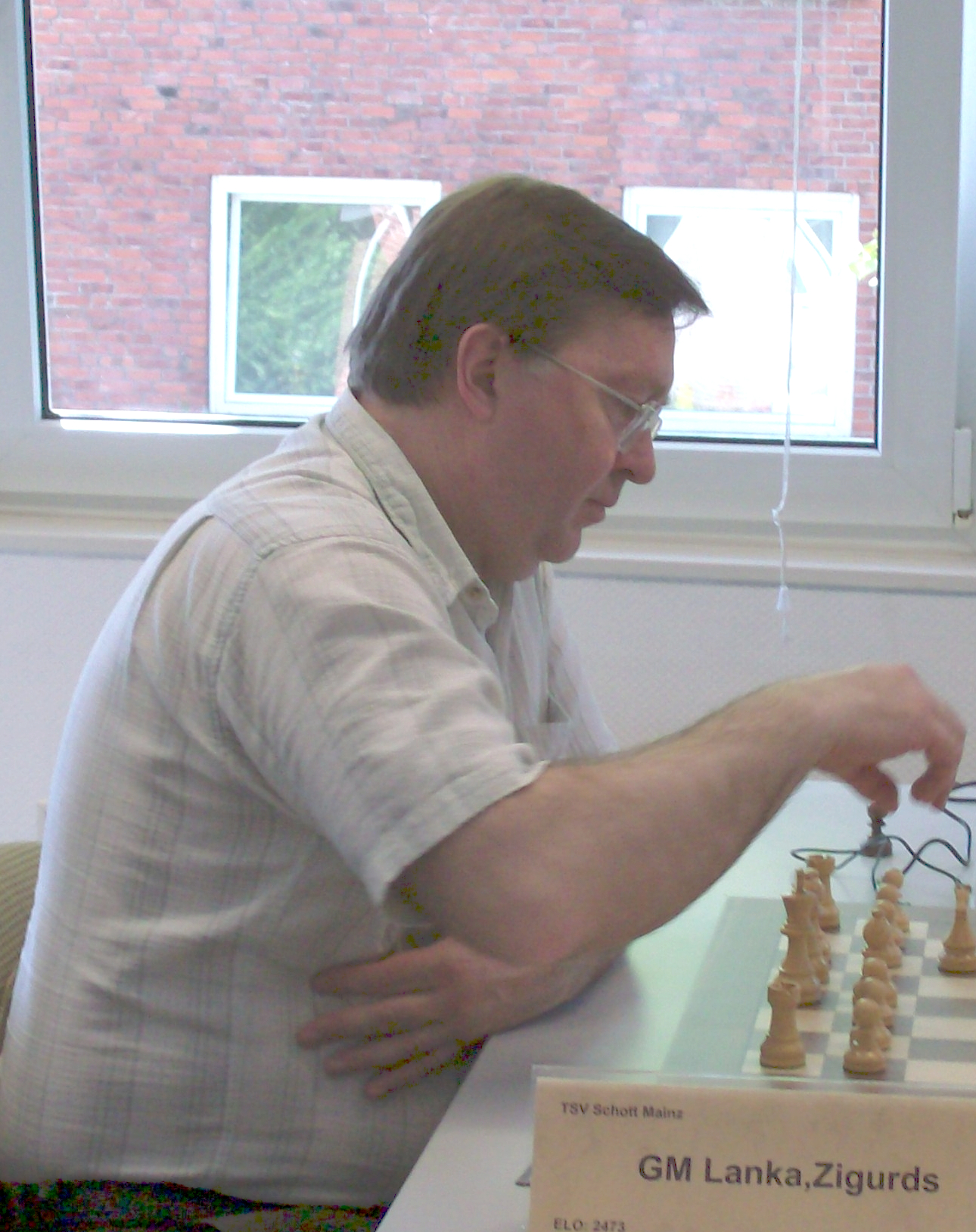 Zigurds Lanka, chess grandmasters from Latvia